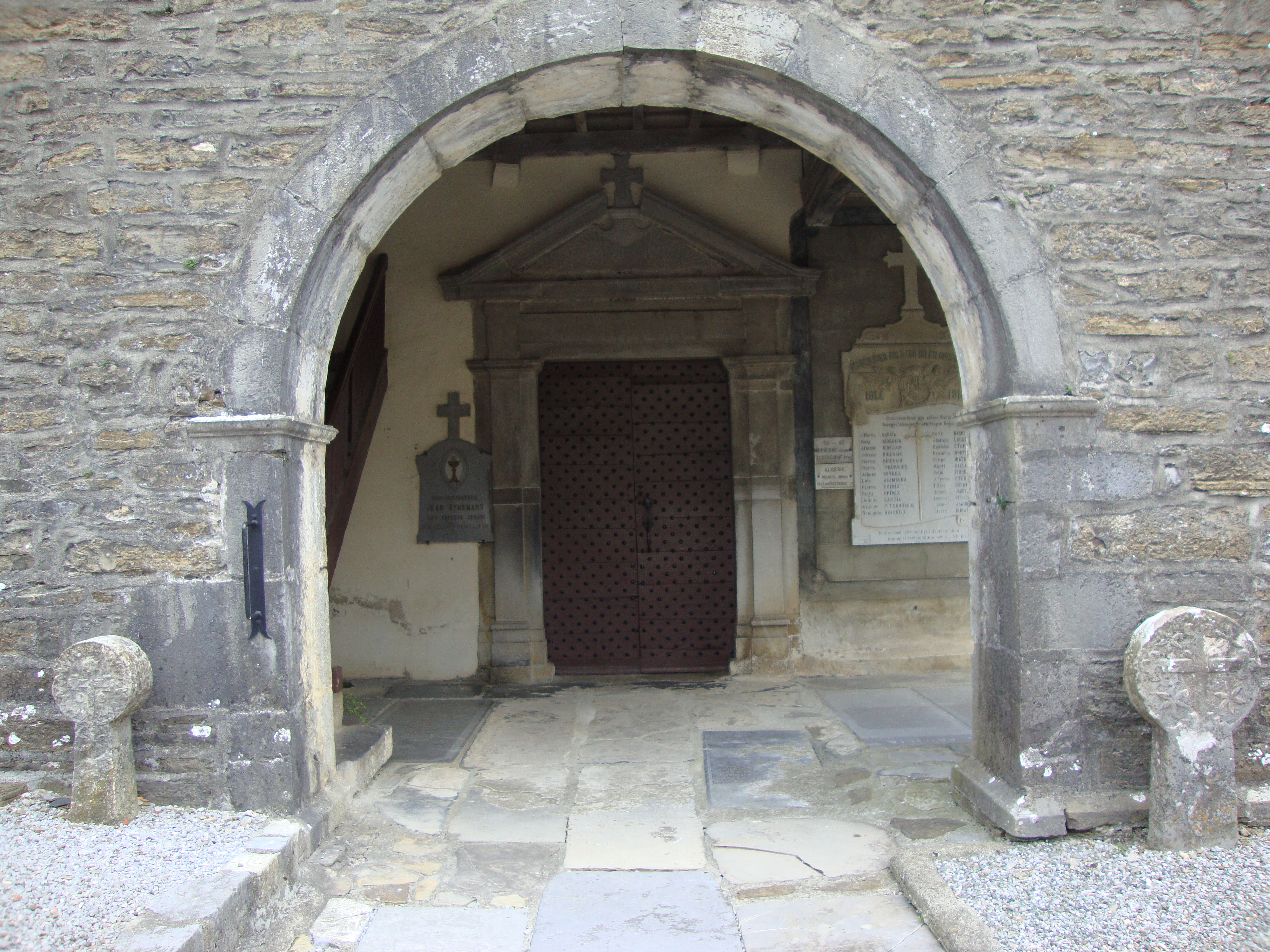 Musculdy (Pyr-Atl, Fr) church portal; old discoidal steles decorate the entrance